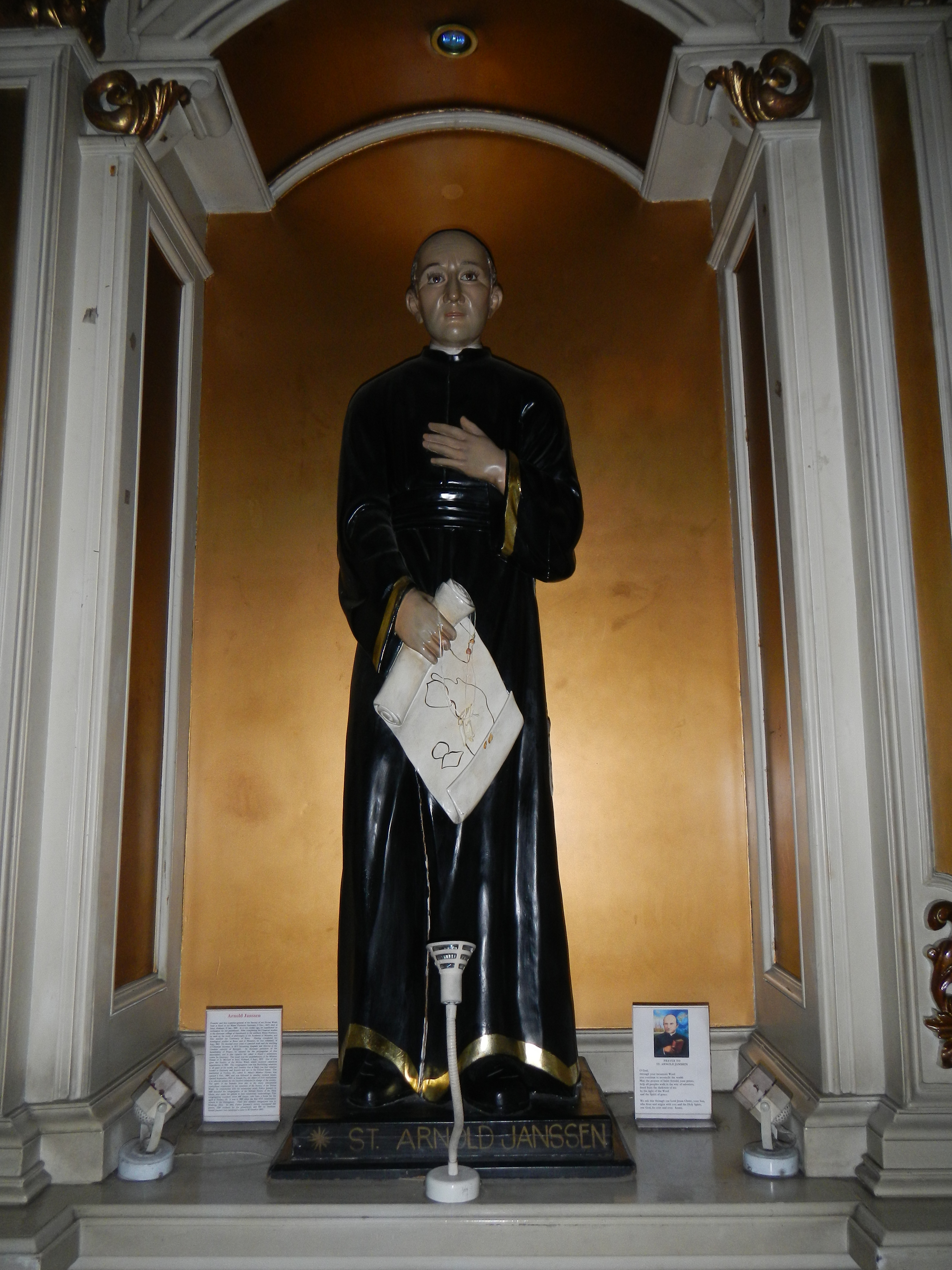 Arnold Janssen[1] 1941 Sacred Heart Parish Kamuning Vicariate of the Holy Family[2]The Sacred Heart of Jesus Parish Church - Kamuning #28 Scout Ybardolaza St., Kamuning, Quezon City is a Catholic parish in the Kamuning District of Quezon City in the Philippines. It was established on October 3, 1941. The parish has been in the pastoral care and administration of the Society of the Divine Word since even before its founding. The current Parish Priest is the Very Reverend Father Jerome Marquez, SVD, who also serves as the Vice-Provincial of the Philippine Central Province of the Society of the Divine Word. His assistant priests are Father Benigno Beltran, SVD, and Father Lino Nicasio, SVD. The Sacred Heart of Jesus Parish parish center is located at the intersection of Scout Ybardolaza Street, Scout Fuentebella Street and Scout Fernandez Street. The parish is part of the Diocese of Cubao.[3] The parish belongs to the[4] Roman Catholic Diocese of Cubao (Latin: Dioecesis Cubaoensis) is a diocese of the Latin Rite of the Roman Catholic Church in the Philippines. The diocese was established on 28 August 2003, the Feast of Saint Augustine, from the Archdiocese of Manila.[5]Sacred Heart of Jesus Parish - Kamuning (Quezon City) Coordinates: 14°37'53"N 121°2'22"E[6][7] Fr. Theodore Buttenbruch, SVD came to Manila in 1940. He founded the Sacred Heart Parish in Kamuning on October 3, 1941, On June 1, 1941, Archbishop Michael O.Doherty of Manila, laid the corner stone for a small church (Buttenbruch by Fr. Peter Michael, SVD).